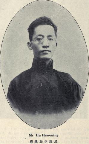 Hu Hanmin(1879 - 1936)